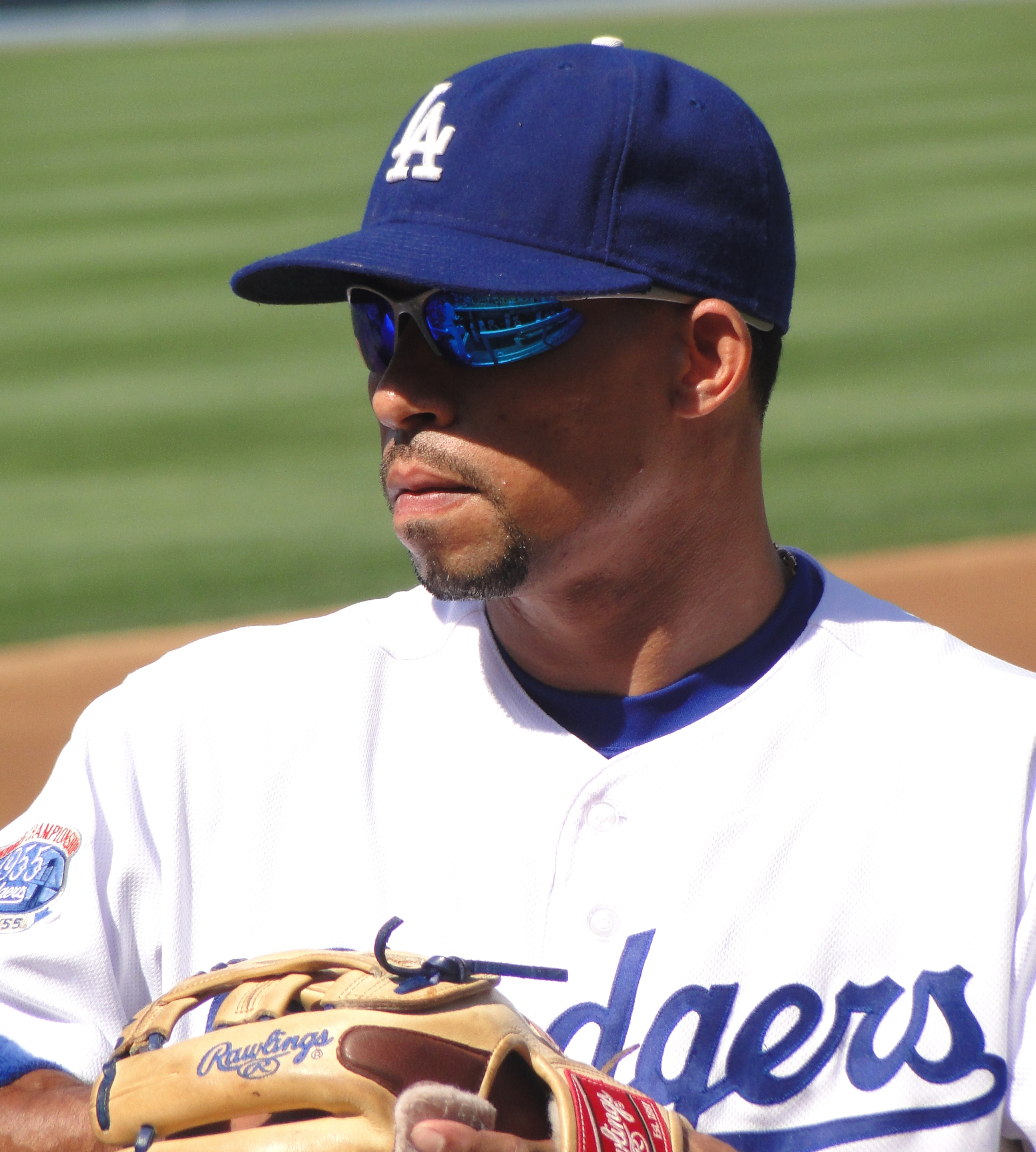 Description Rafael Furcal at Dodger Stadiu Date26 June 2010SourceI (Cbl62 (talk)) created this work entirely by myself.AuthorCbl62 (talk) 05:49, 27 June 2010 (UTC) 05:49, 27 June 2010 . . Cbl62 . . 2,592×2,882 (2.05 MB) Rafael Furcal at Dodger Stadiu